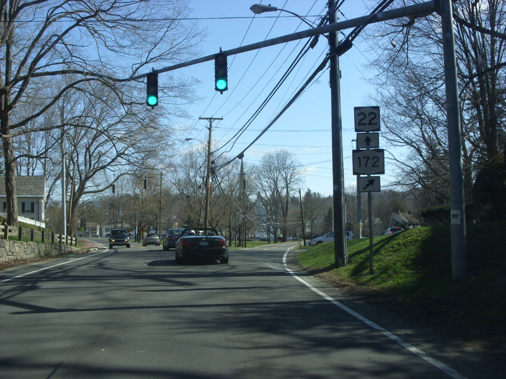 New York State Route 172 forking eastward away from New York State Route 22 in Bedford Village, New York.